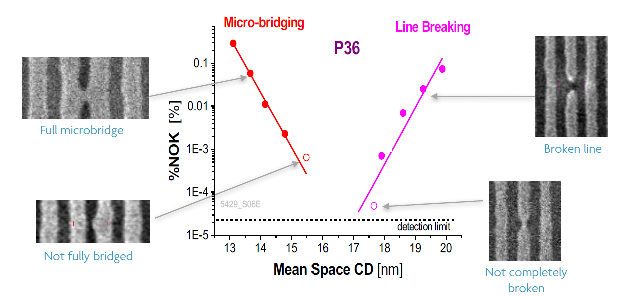 36 nm pitch lines and spaces may show bridging or breaking failures. Bridging is more likely for small trenches (spaces) while breaking is more likely for smaller lines separating the trenches. Ref.: P. De Bisschop and E. Hendrickx, Proc. SPIE 10583, 105831K (2018).